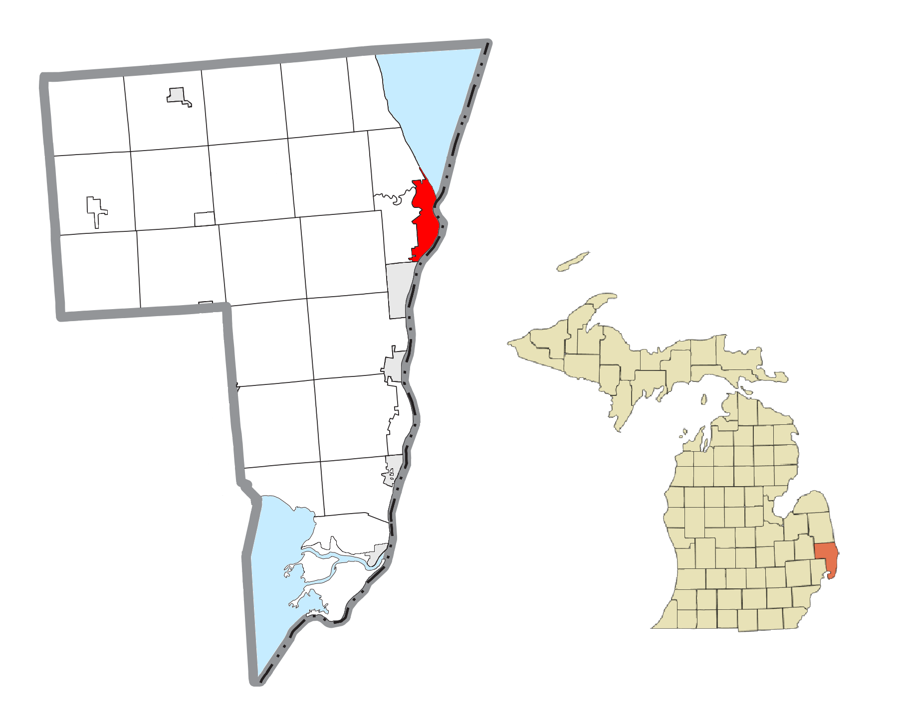 Port Huron, MI